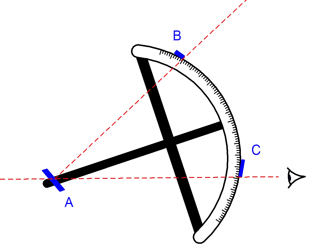 Drawing of cross-bow quadrant, navigation instrument